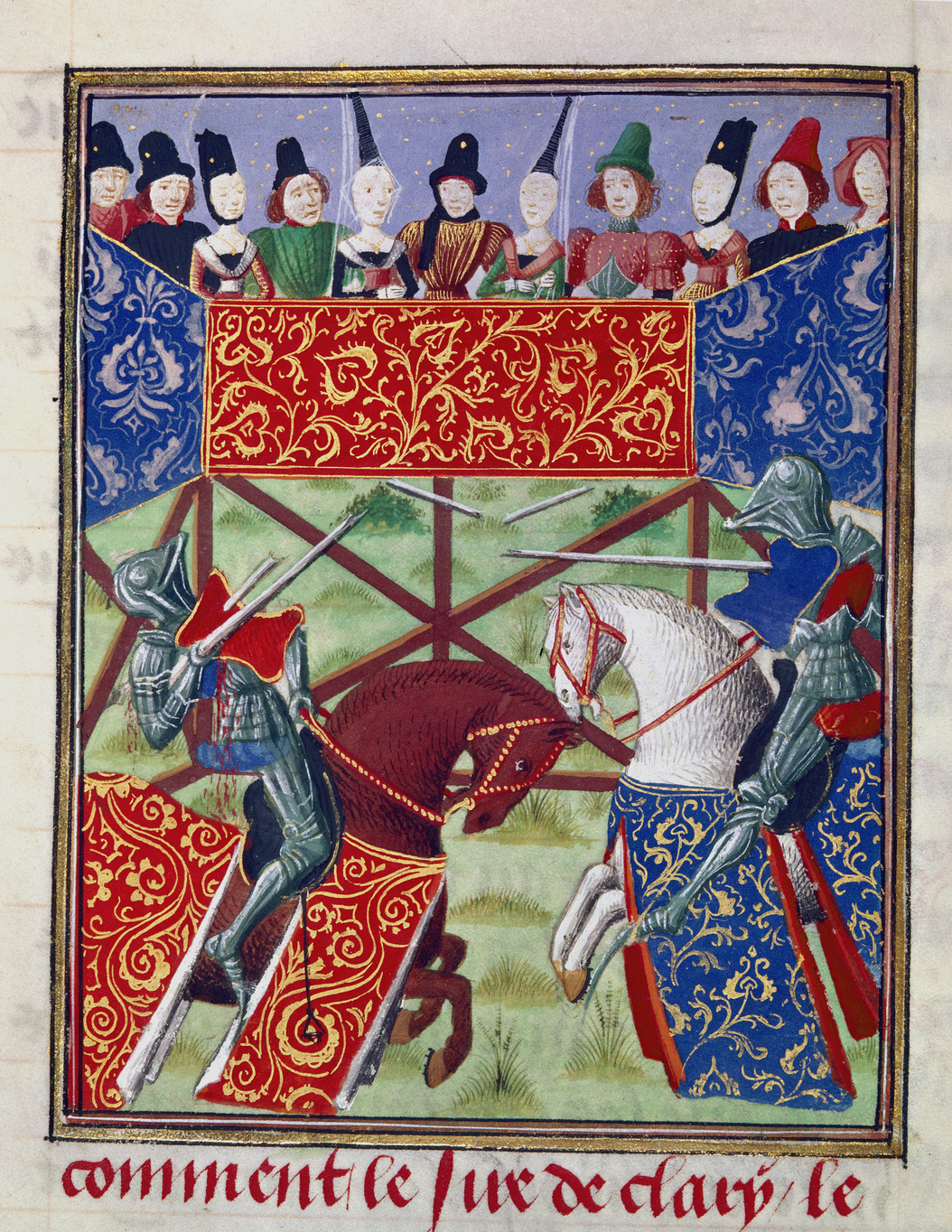 French knights jousting (Miniature) Joust between Pierre de Courtenay and the Sire de Clary